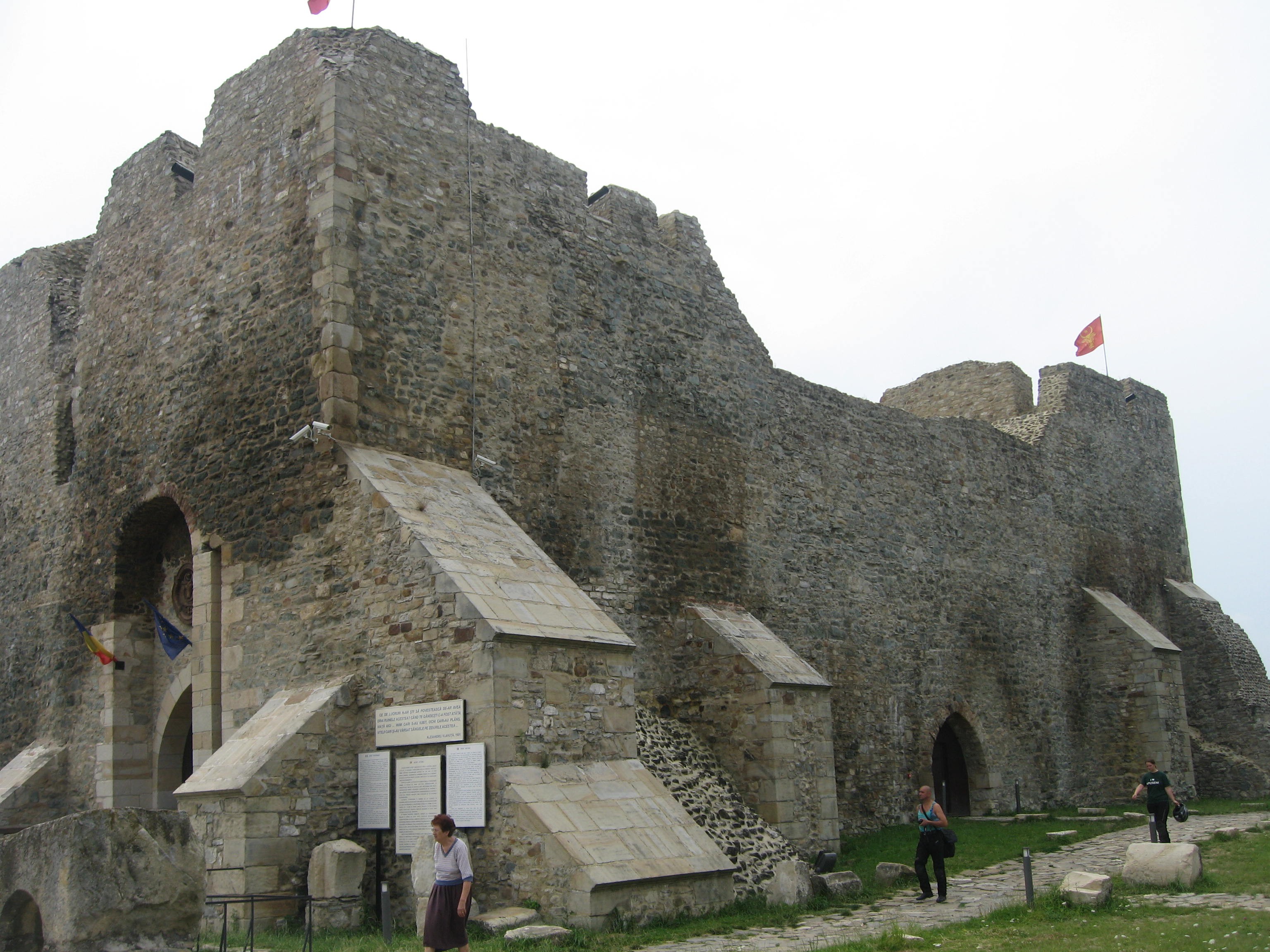 Neamț Citadel